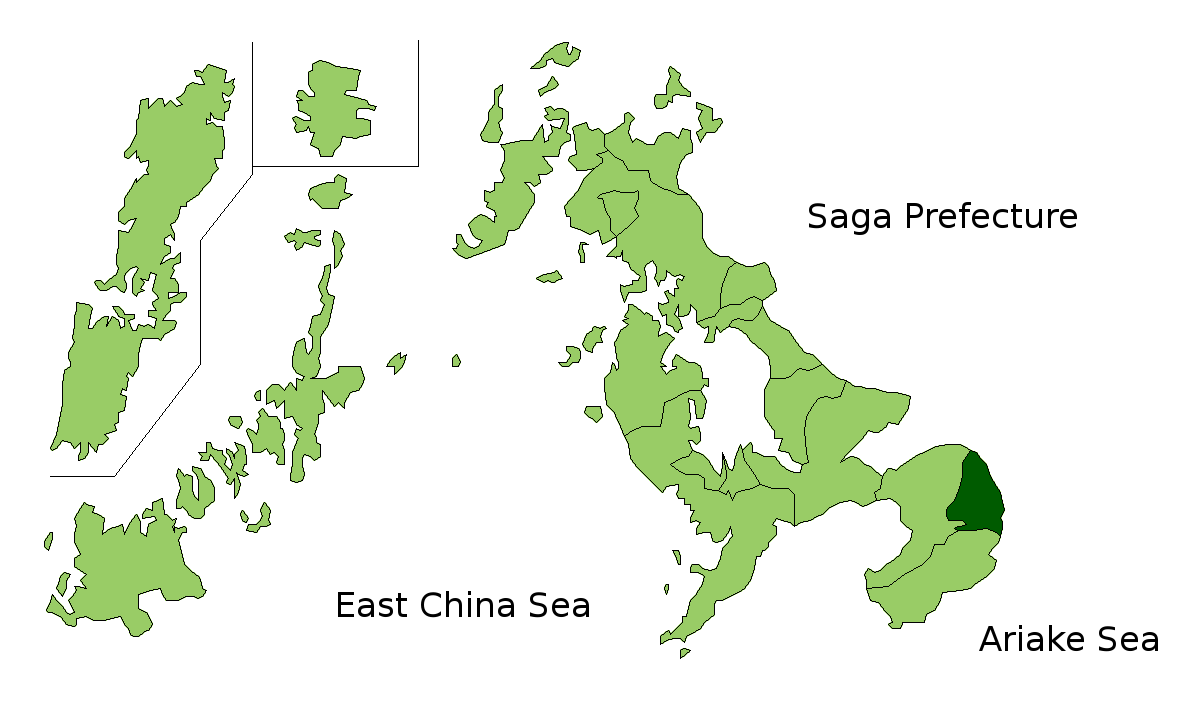 The location of Shimabara in Nagasaki Prefectuur, Japan